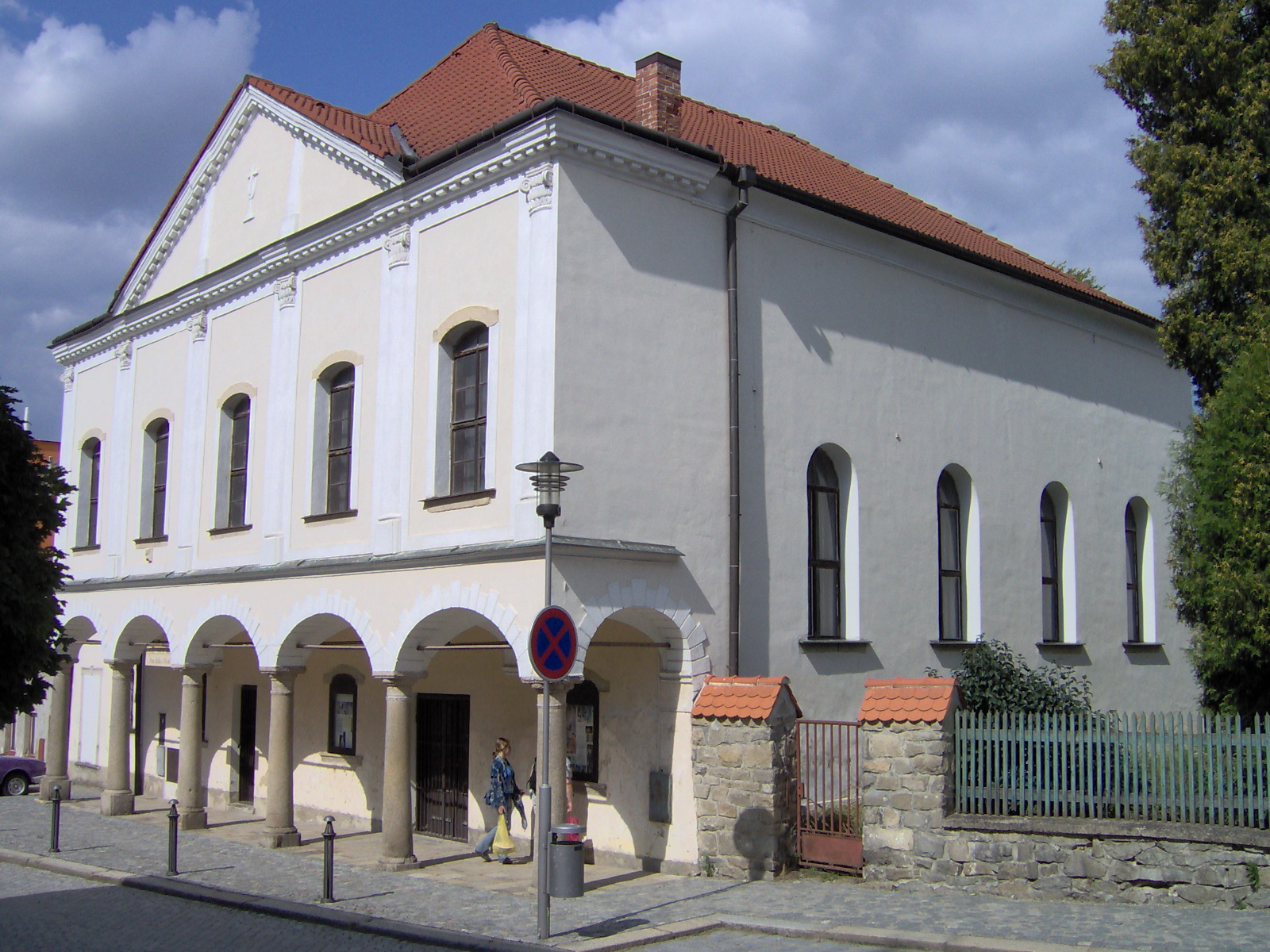 Former synagogue, Třešť, Czech Republic